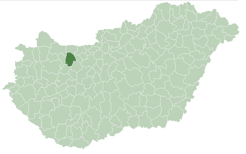 Subregion Kisbér